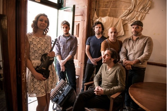 Foto: Rita Carmo